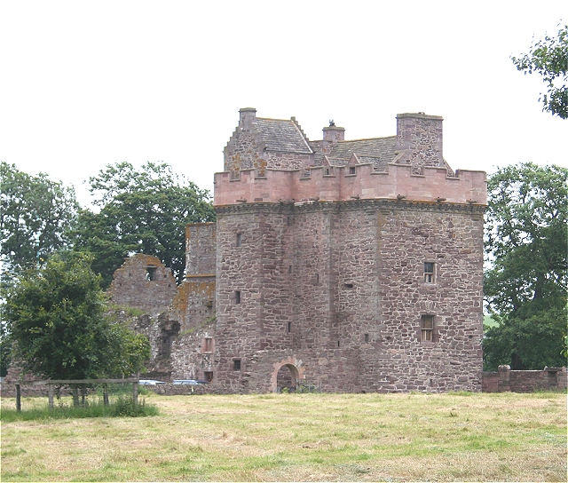 Melgund Castle, east of Aberlemno, Angus, built in 1543 on the orders of Cardinal David Beaton